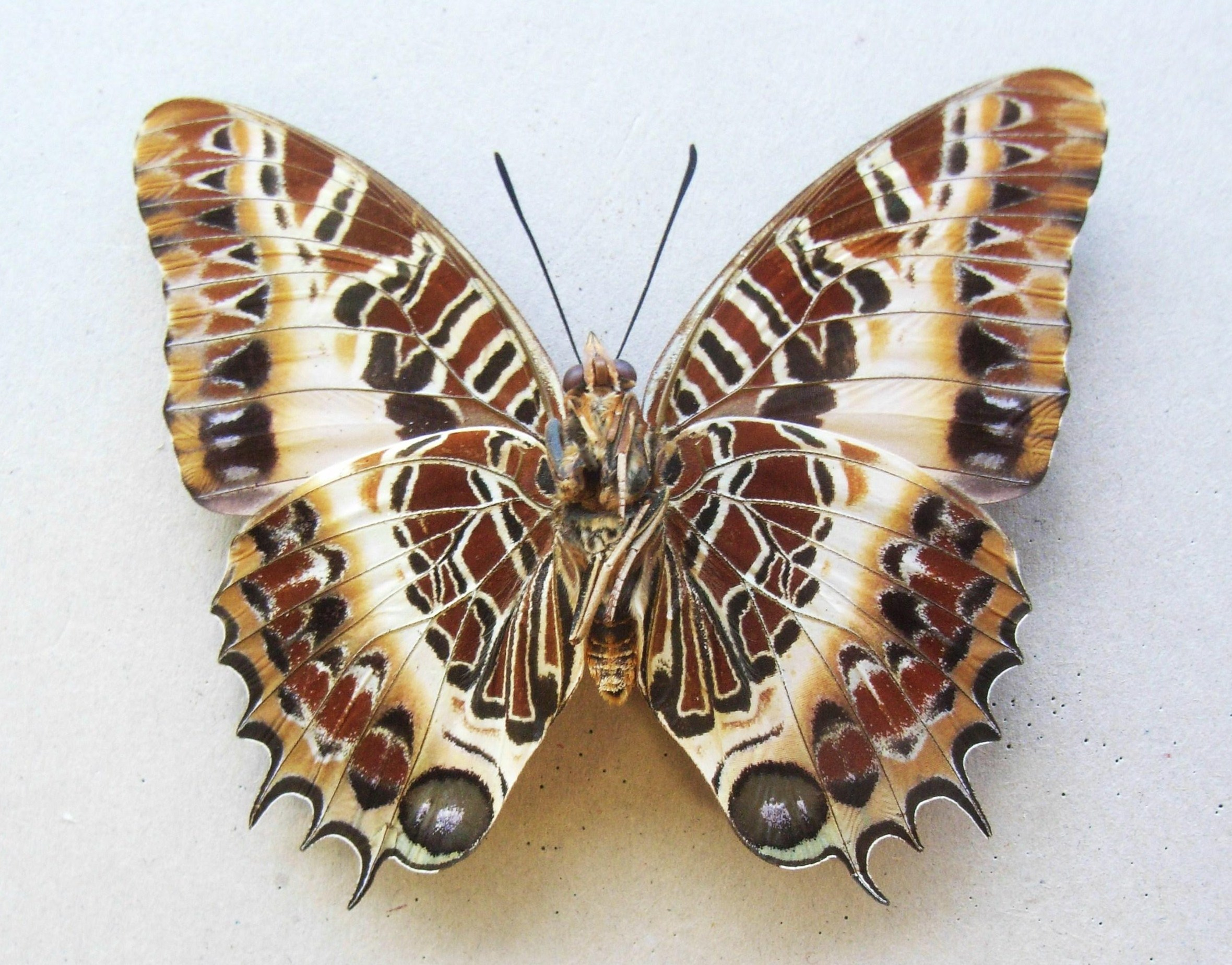 Charaxes pollux:Charaxinae:Nymphalidae Female underside